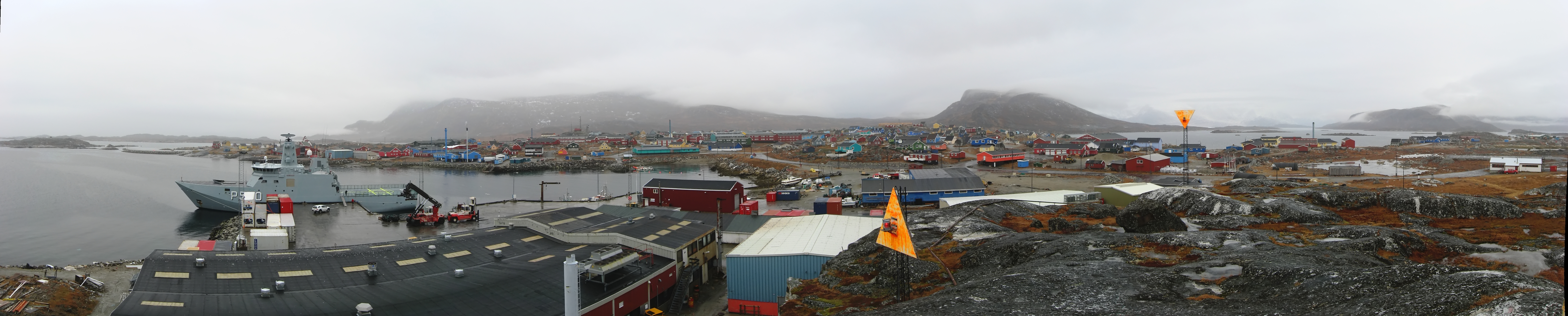 Nanortalik. A stitch of seven photos taken with a Canon DIGITAL IXUS 800 IS compact camera. Cropped and curves in GIMP. Noise reduced in Noiseware Std. Ed.